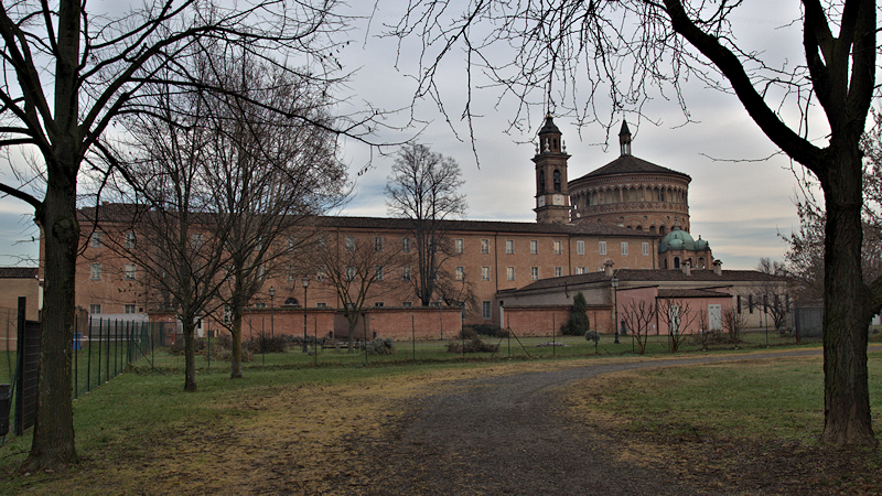 Renaissance basilica of Santa Maria della Croce in Crema (Italy) and, on the left, the former Carmelite convent